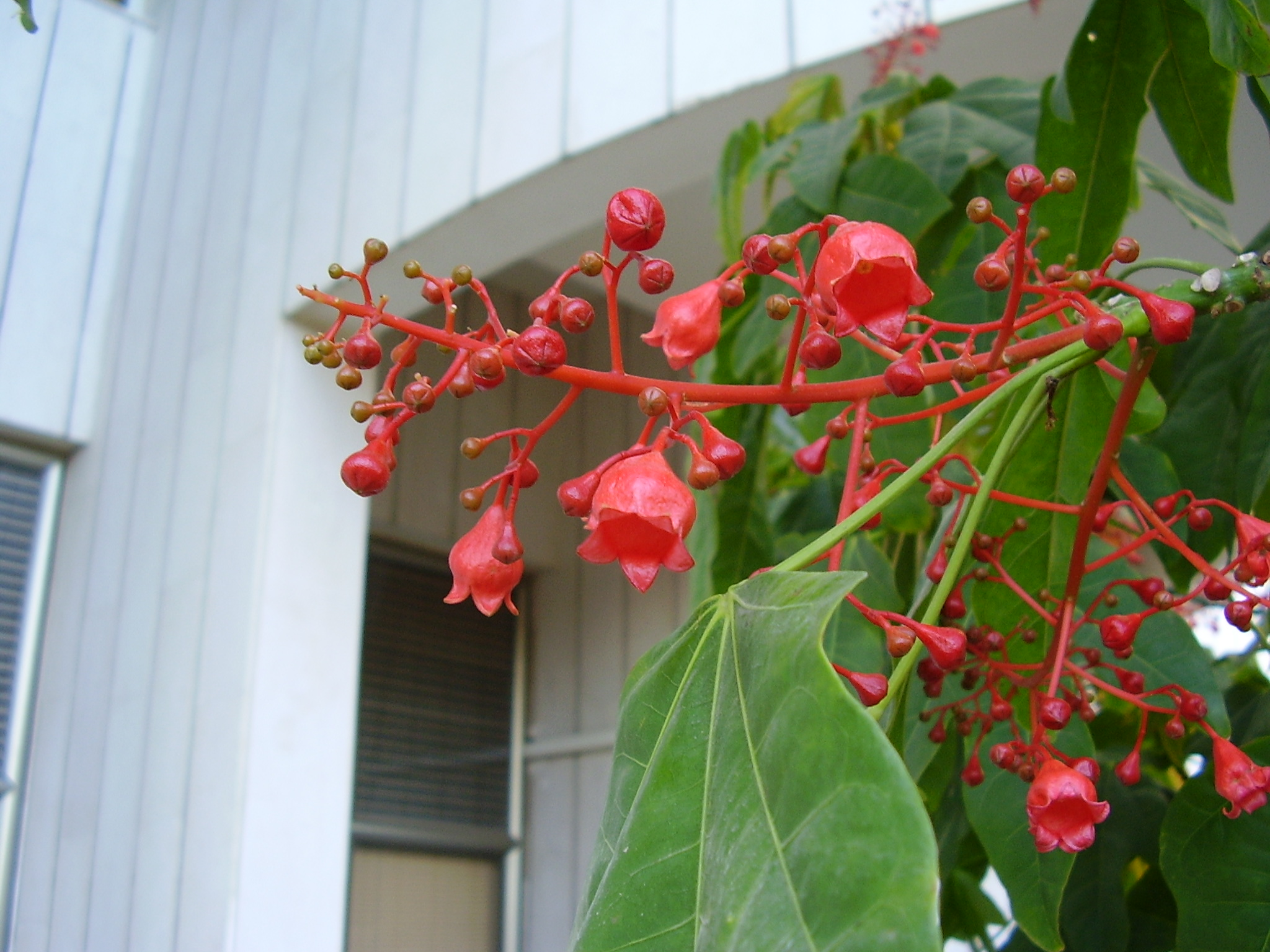 flowers of brachychiton acerifolius